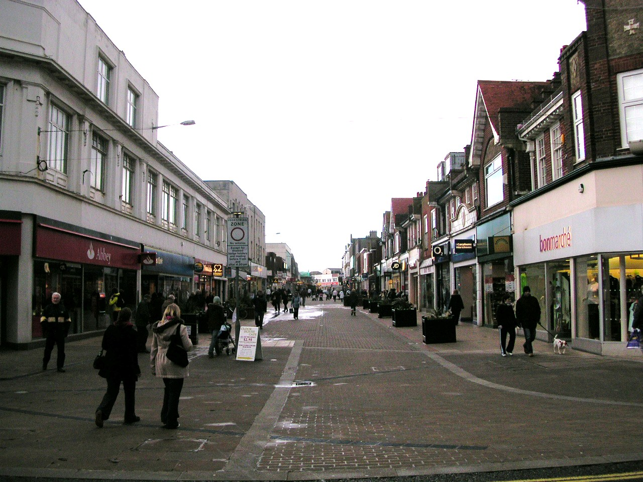 Shopping precinct, Bognor Regis, West Sussex, England.